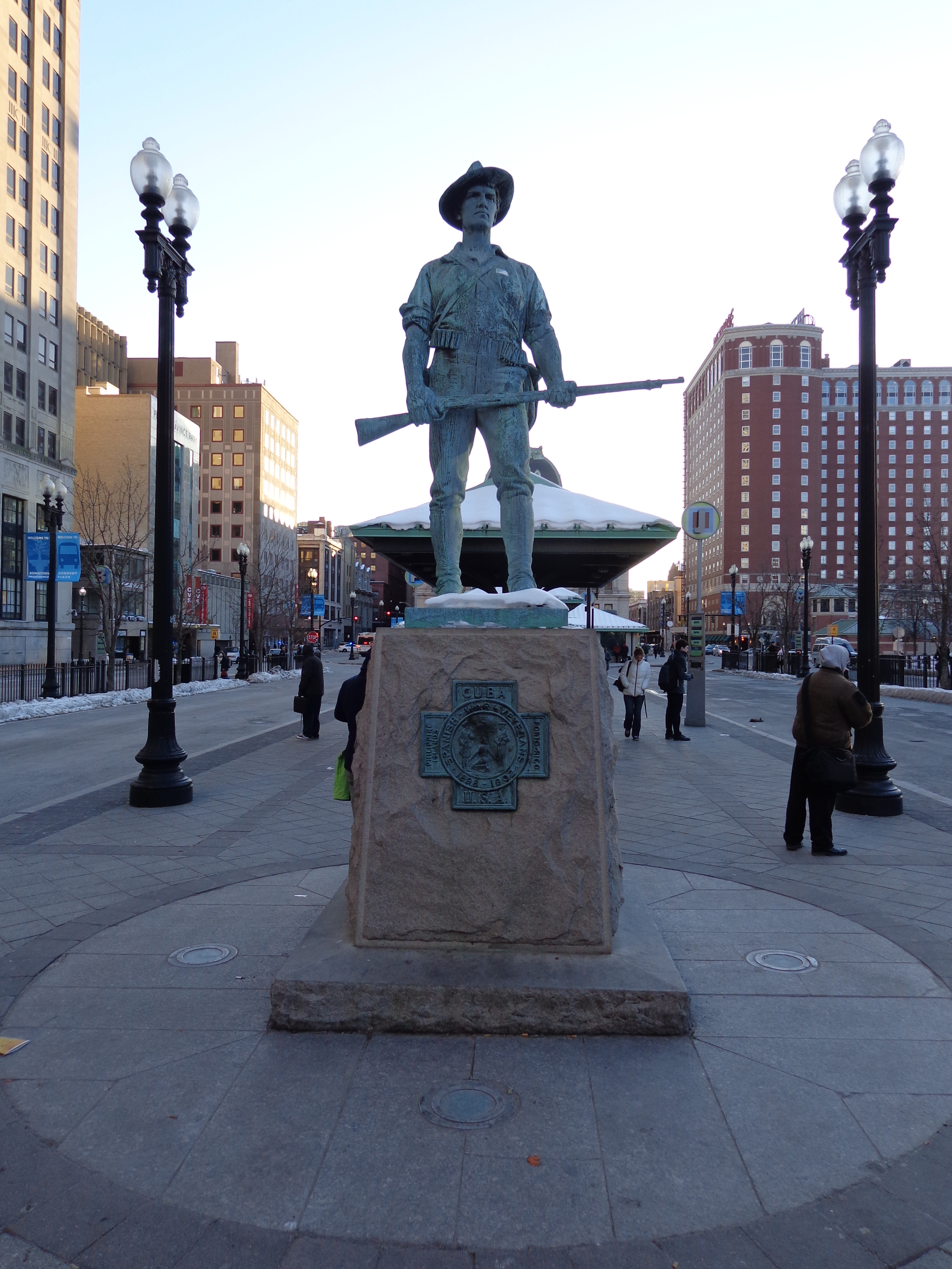 The Hiker Monument in Providence RI